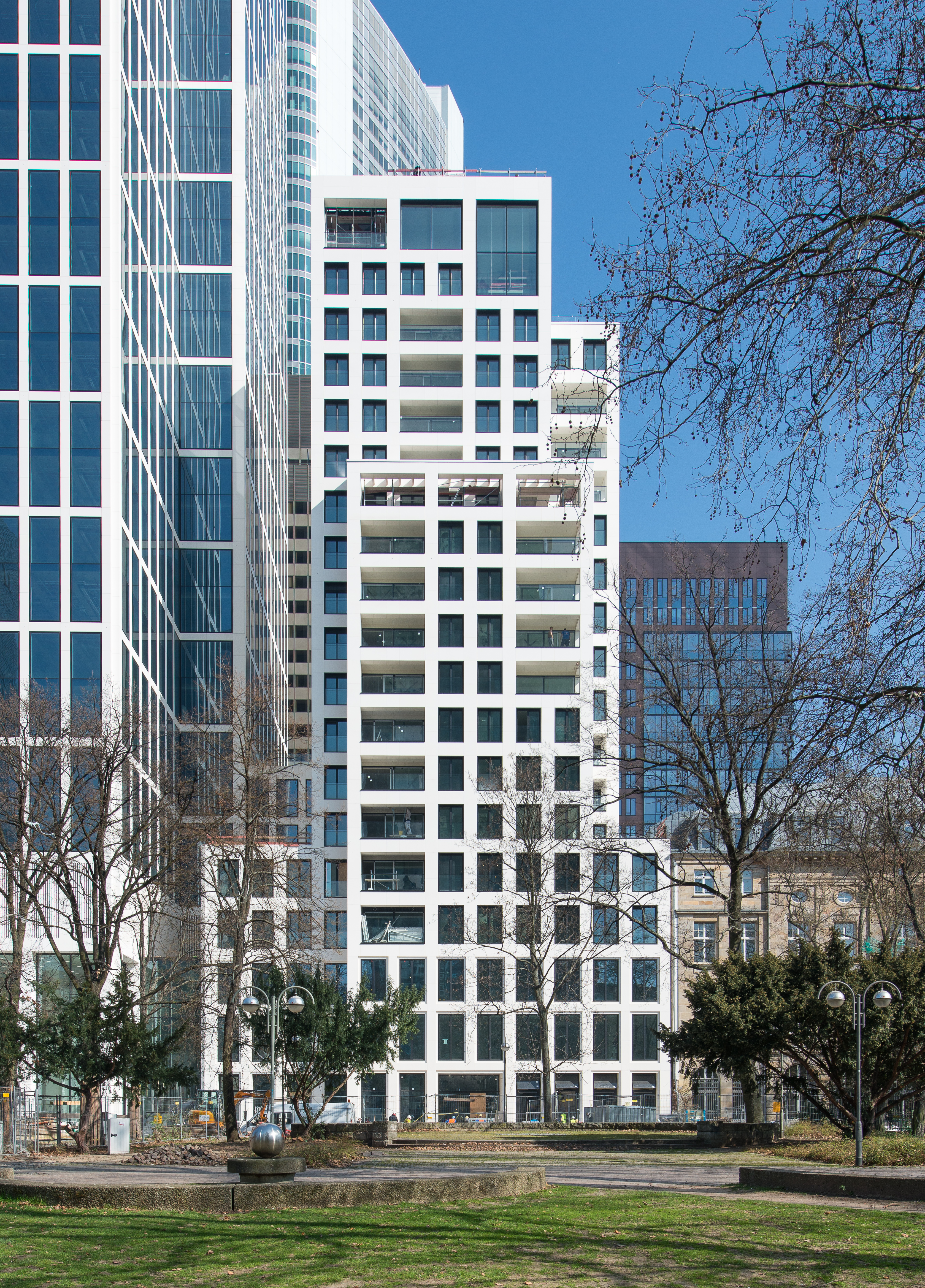 Frankfurt am Main, Taunusturm residential tower (under construction).